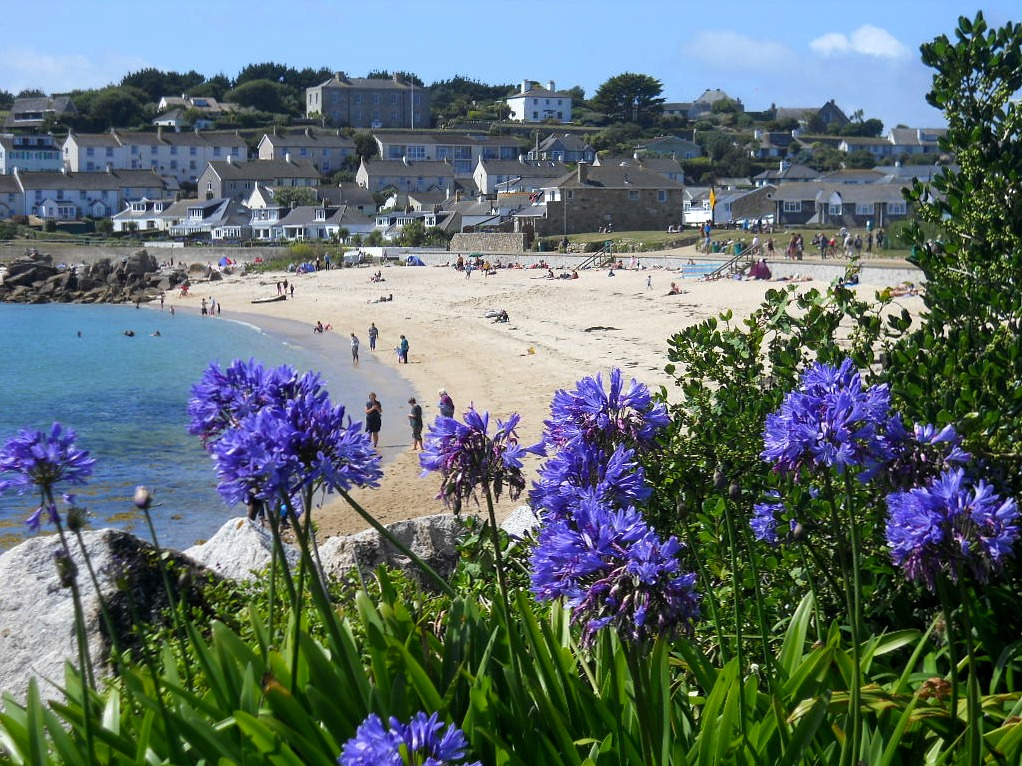 porthcressa beach, isole scilly